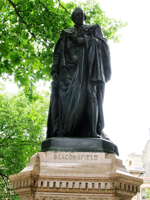 Benjamin Disraeli statue, Parliament Square SW1 Benjamin Disraeli (1804-81), Earl of Beaconsfield from 1876 - Politician - Prime Minister 1868 and 1874-80